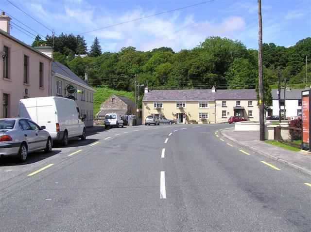 Doochary, Co. Donegal Looking north-west